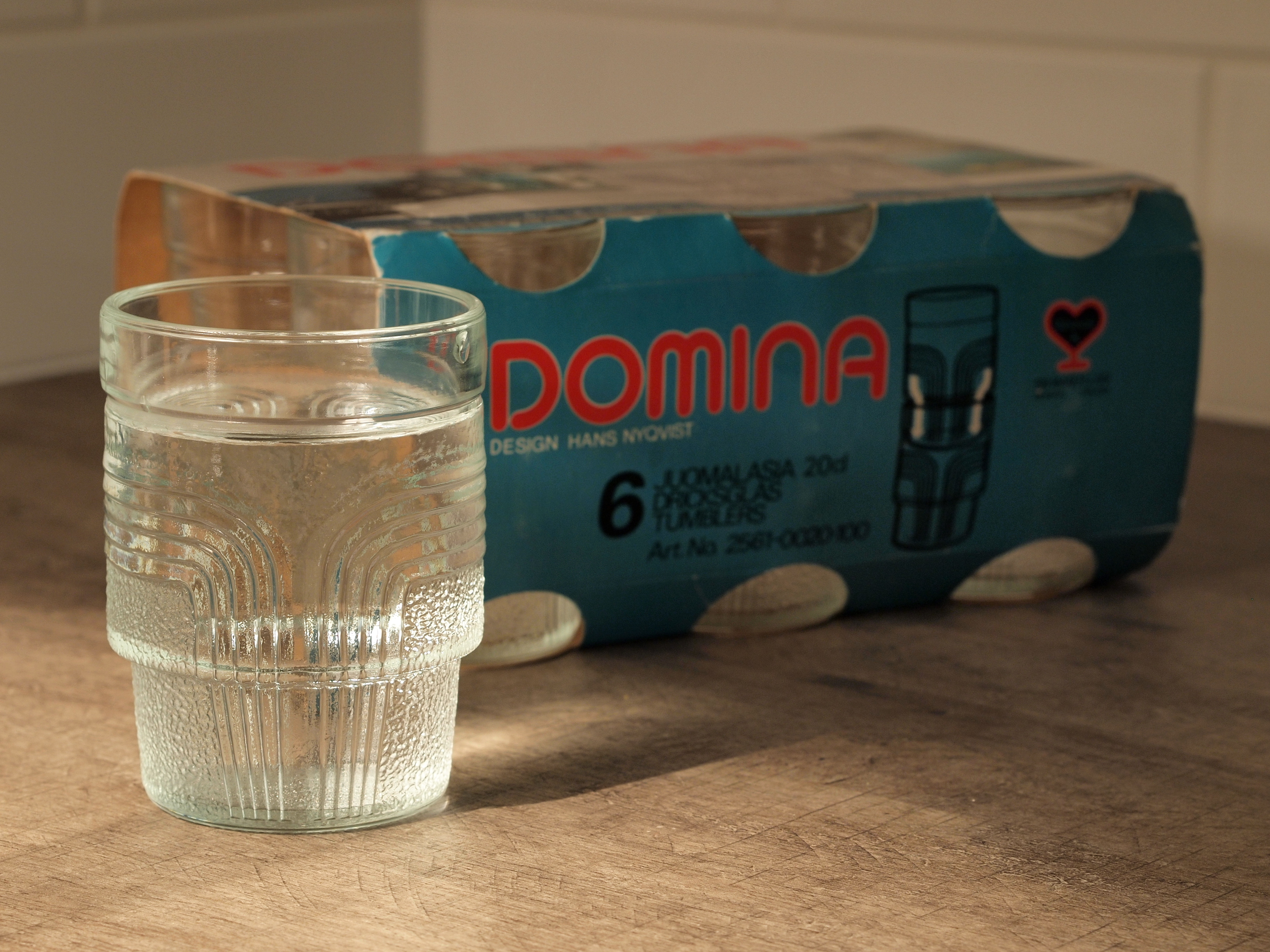 Domina 20-centilitre tumblers by Riihimäen lasi (Riihimäki glass). Design Hans Nyqvist.